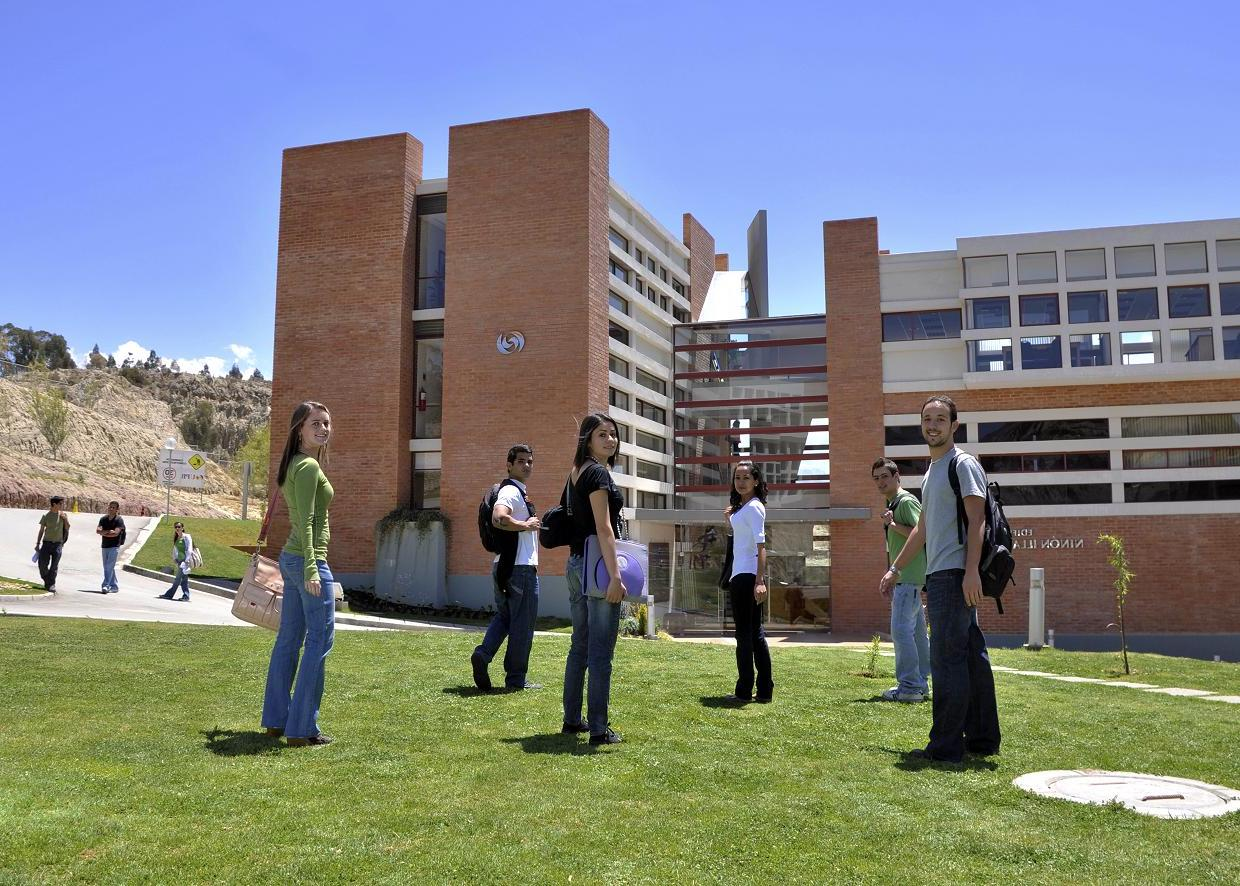 Bolivian Private University campus in La Paz